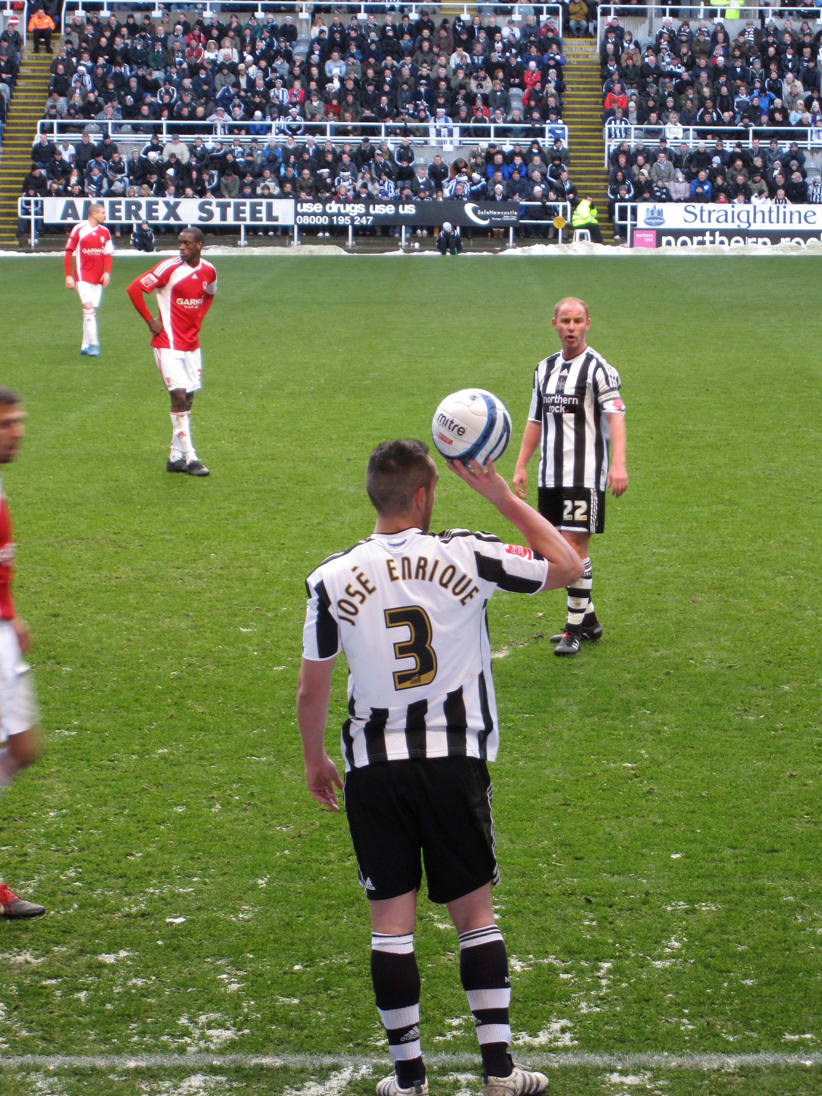 Enrique (foreground) about to take a throw in for Newcastle United; Nicky Butt right.